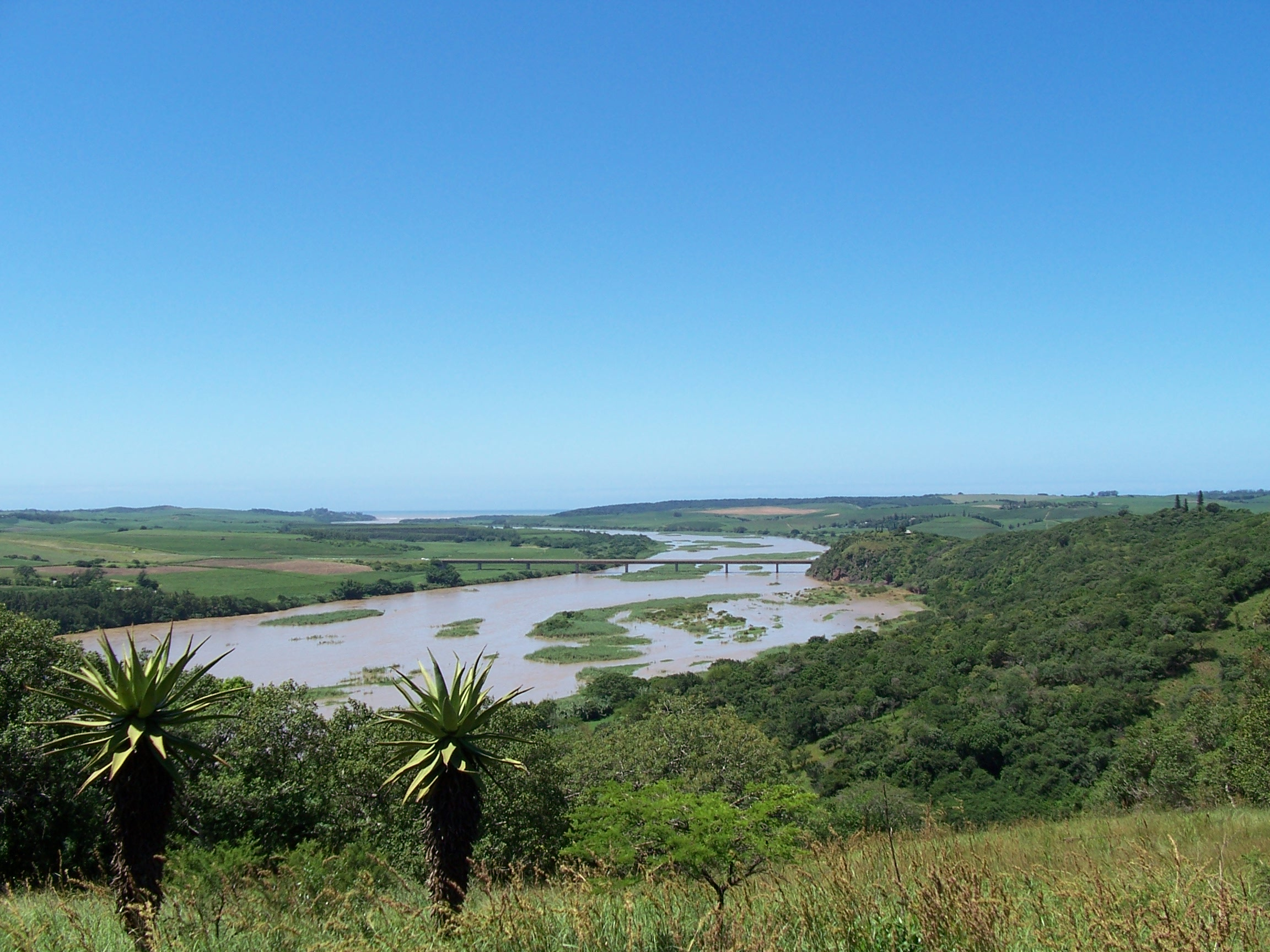 Tugela river mouth (KwaZulu-Natal, South Africa) showing the 455 m bridge carrying the N2 national highway in the middle-distance. This bridge replaced the "John Ross Bridge" which was destroyed by floods in 1987. The Indian Ocean can be seen in the distance. A comparison with Google Earth shows a marked difference n water level between the two images.